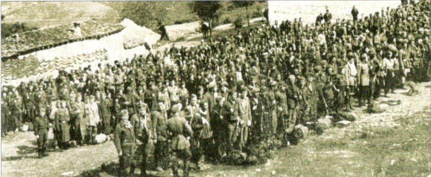 Thirteenth Macedonian national liberation partisan brigade